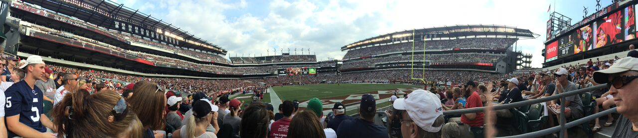 Temple beats Penn State on 9/5/15 in front of 69,174.